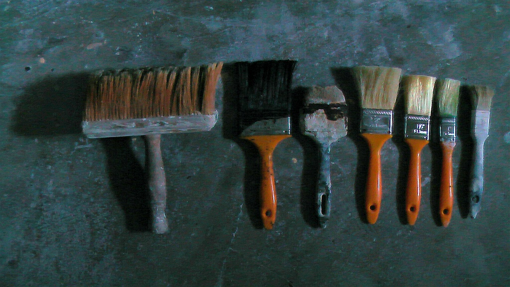 brushes for wall painting